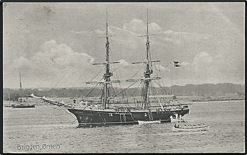 Photo from postcard